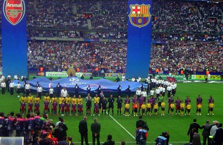 Arsenal F.C. and FC Barcelona line up before the 2006 UEFA Champions League Final. Photo taken from en.wikipedia.